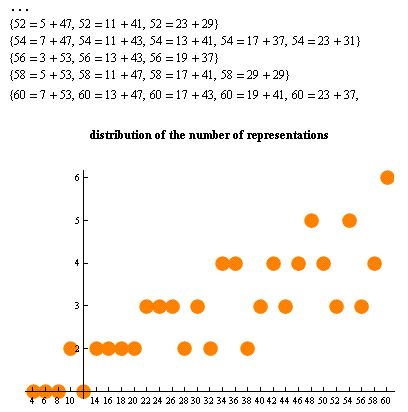 Image of computer model of the Goldbach Conjecture from GFDL-compatible terms of use can be read here: Terms of Use The Wolfram Demonstrations Project ("this Site") is an informational resource made freely available by Wolfram Research. All content on this site is licensed under the Creative Commons Attribution - Noncommercial - Share Alike 3.0 Unported License. By accessing the site or using it in any way, you accept and agree to be bound by the terms of this license. If you do not agree to these Terms of Use, you may not use this Site or content obtained from this Site. Wolfram Research reserves the right to change, modify, add to, or remove portions of these Terms of Use at any time without notice. Please refer back to this page for the latest Terms of Use. A summary of the licensing terms can be found at: The full legal code can be found at: â€¨In addition, the preview animations of each Demonstration, the pop-up snapshots, and the images available after clicking "Link to this Demonstration" are also licensed under the MIT License. The MIT License allows unrestricted use provided that the copyright notice is preserved. We encourage the use of the aforementioned items in educational resources around the web, for example on Wikipedia and university websites. The full text of the MIT License can be found at: Pleasantville (talk) 12:39, 14 December 2007 (UTC)